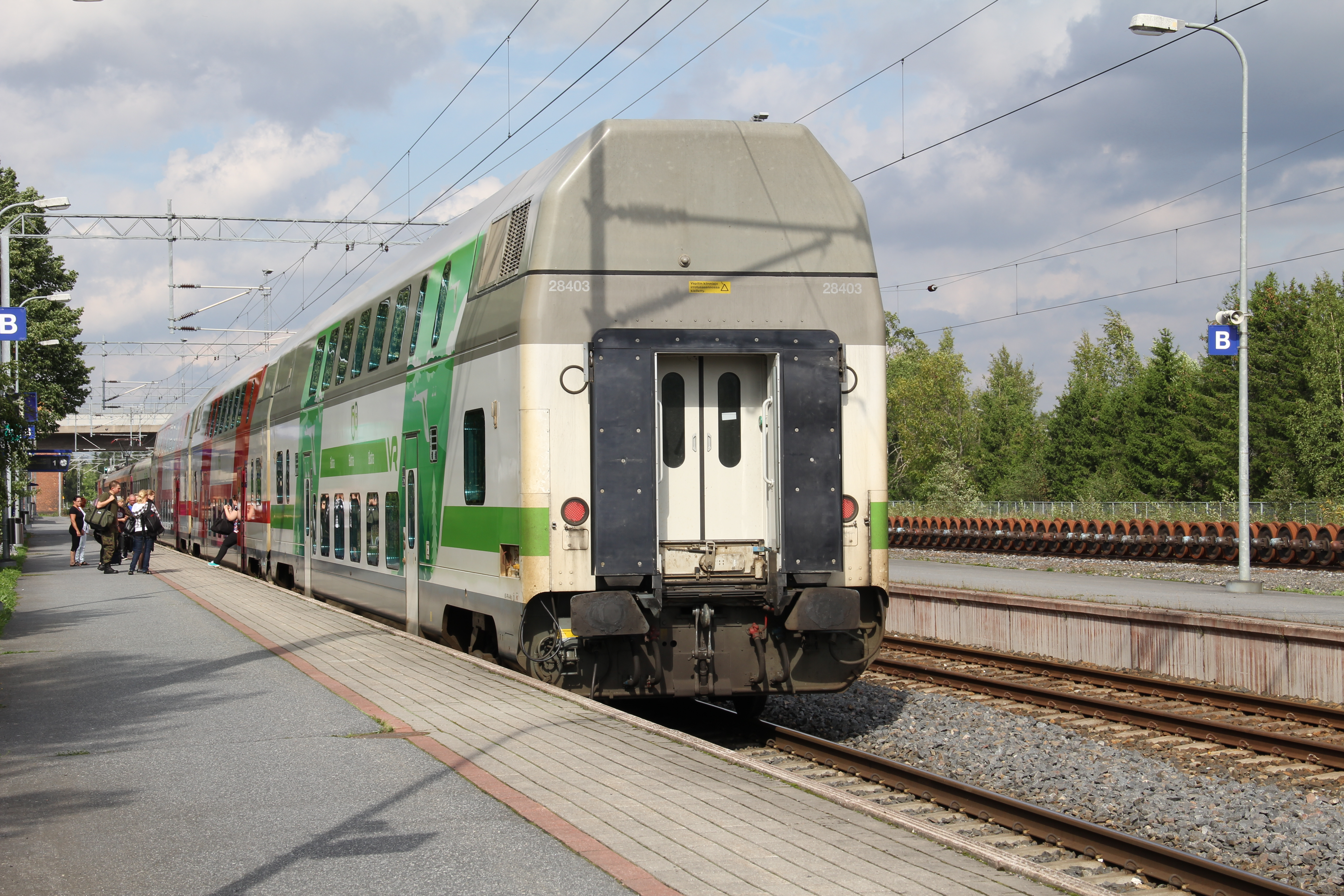 Loimaa Railway station, Loimaa, Finland. IC921-train from Turku to Pieksämäki has just arrived.